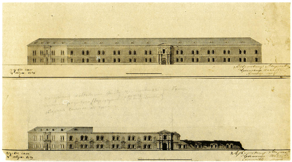 Damage of Moscow Arsenal in 1812 (below), reconstruction draft (above). Inner (eastern) facade. 1814